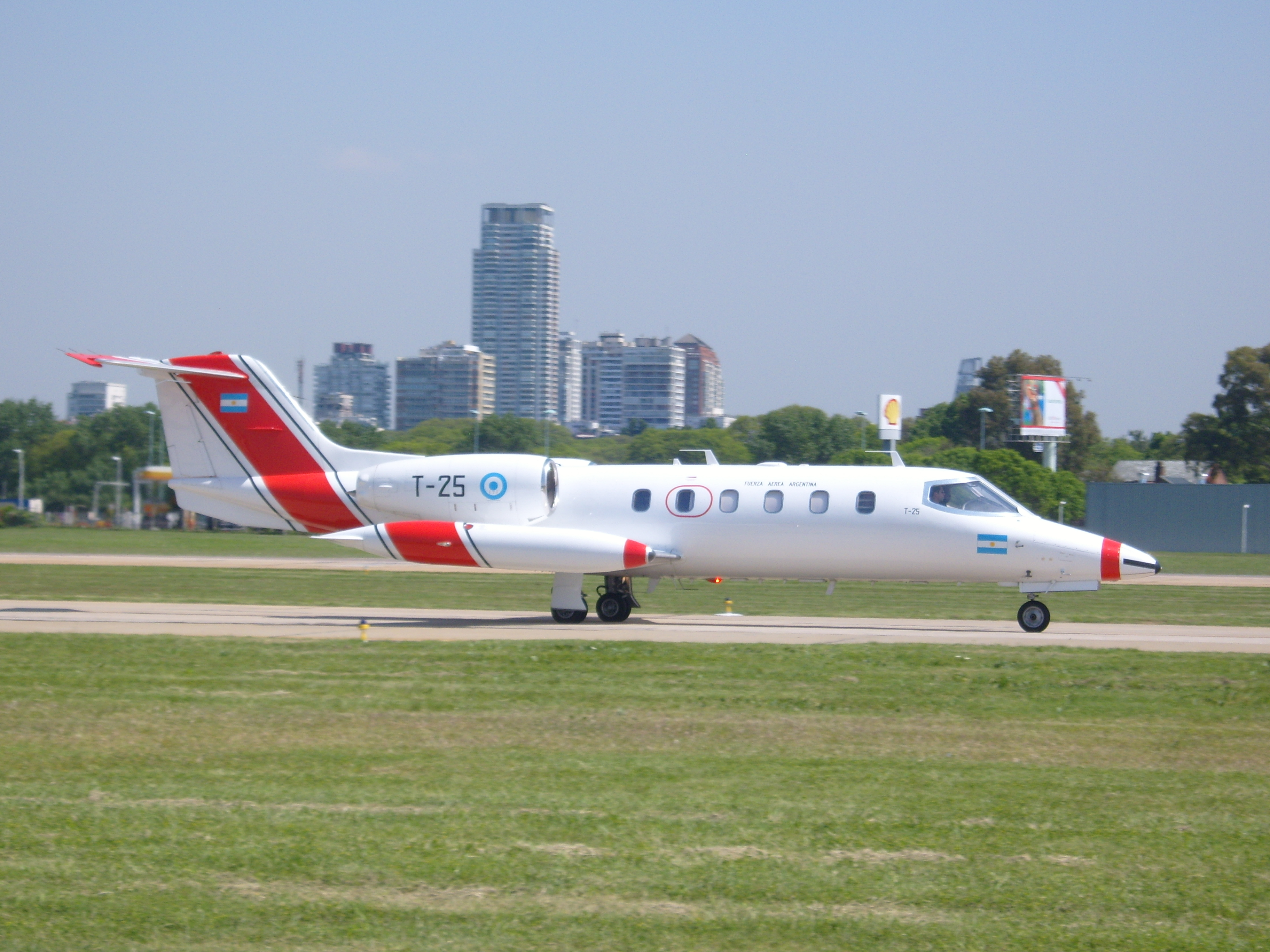 T-25 Argentine Air Force Learjet 35 msn 35A-484 seen taxiing for departure at Buenos Aires Aeroparque (AEP/SABE).